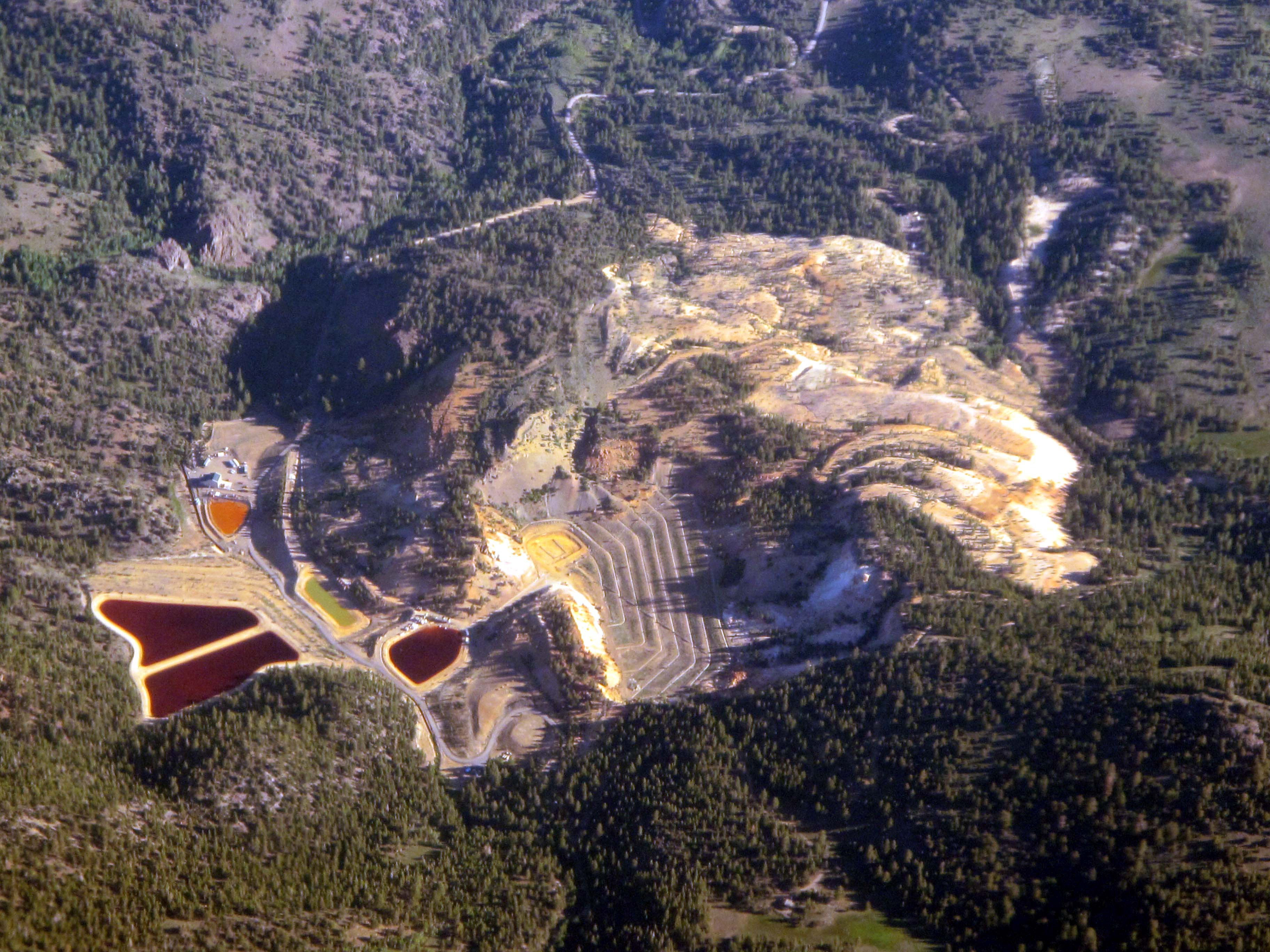 Leviathan Mine, Alpine County, California. An abandoned open pit sulfur mine that is now a Superfund site.